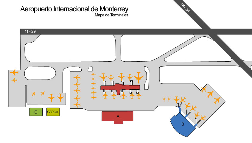 Monterrey International Airport Terminal Layout